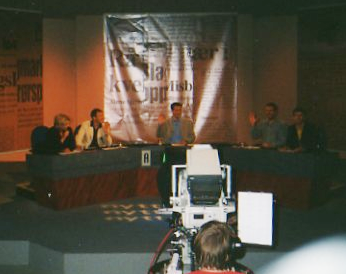 Picture taken before recording of the NRK-programme "Nytt på Nytt".